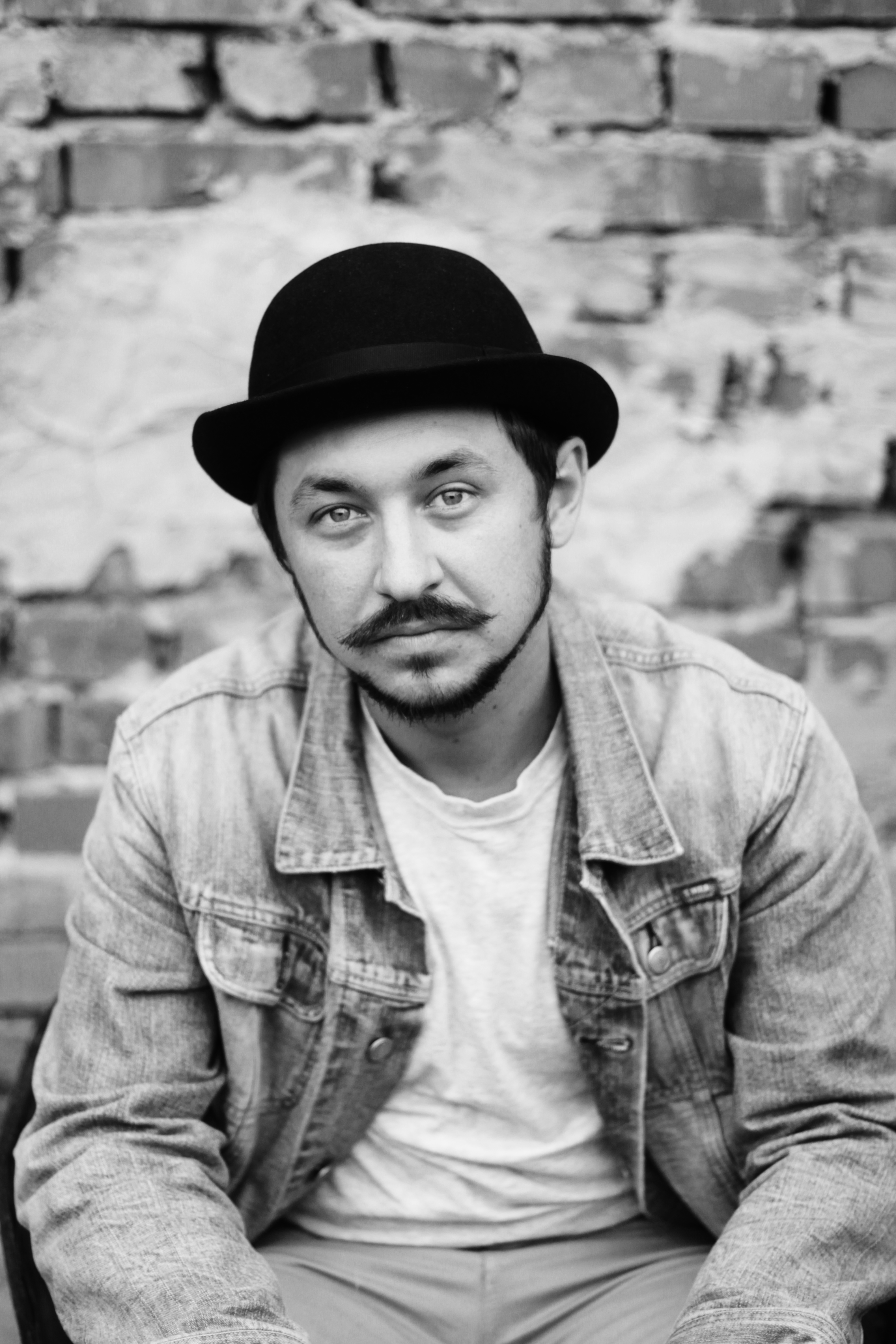 Sasha Boole. Promo photo to the release of the second album Survival Folk 2014.